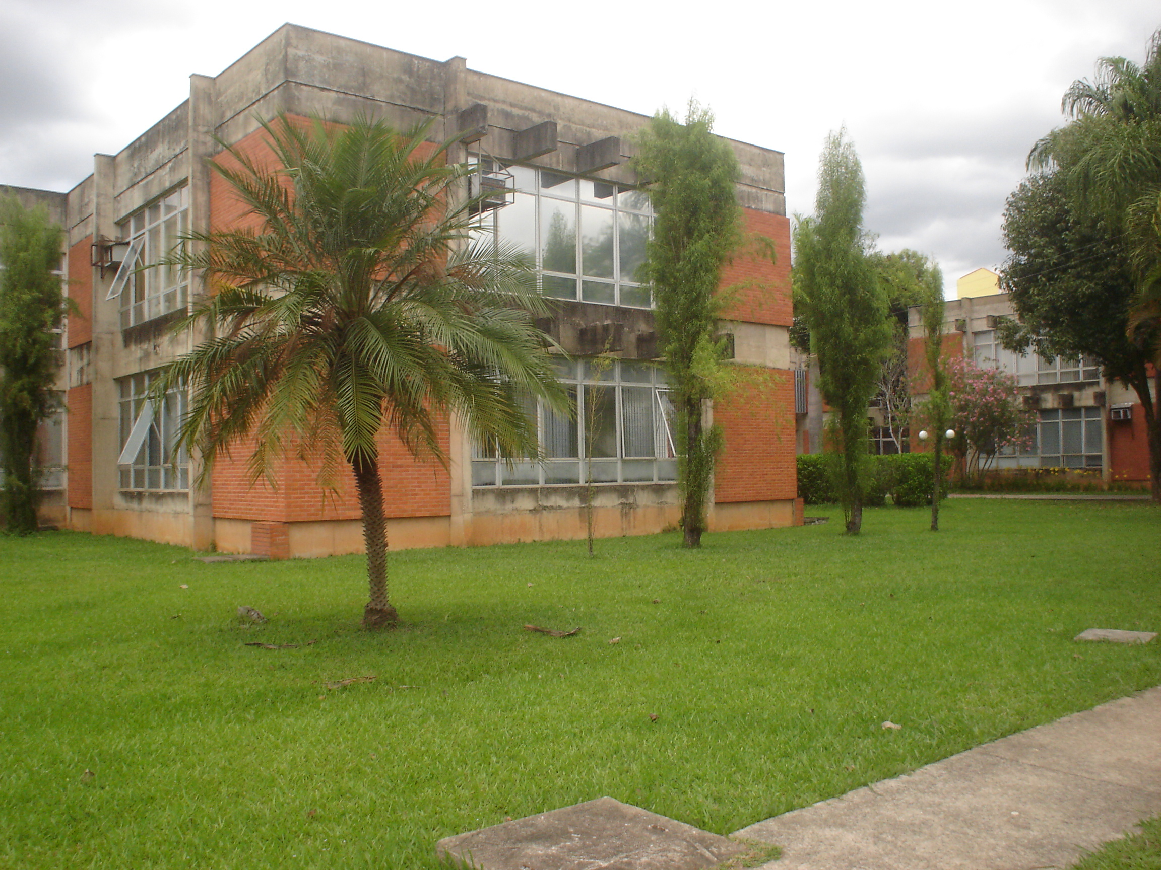 Federal University of Itajubá, Brazil